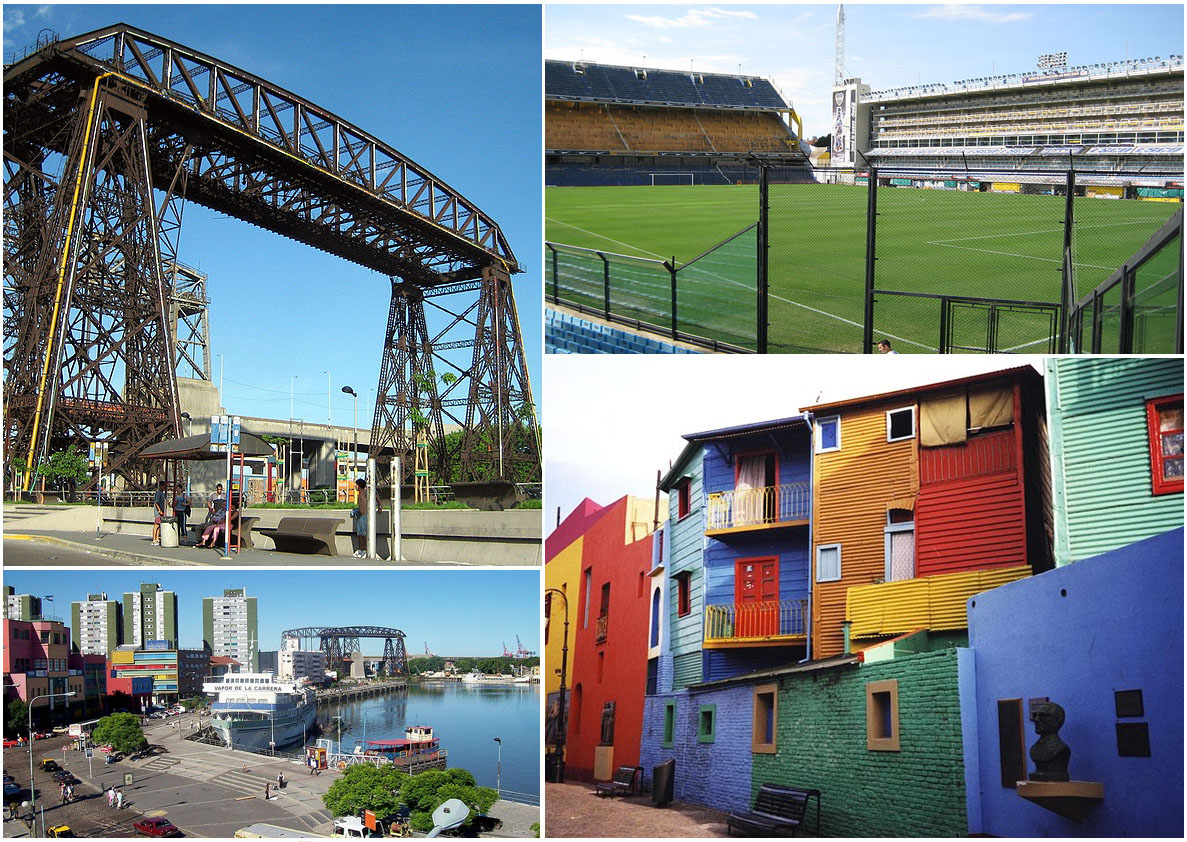 Photo montage of the Buenos Aires district of La Boca